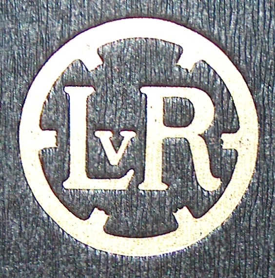 Old logo of the Swiss company "Gesellschaft der Ludwig von Roll'schen Eisenwerke", later Von Roll AG.